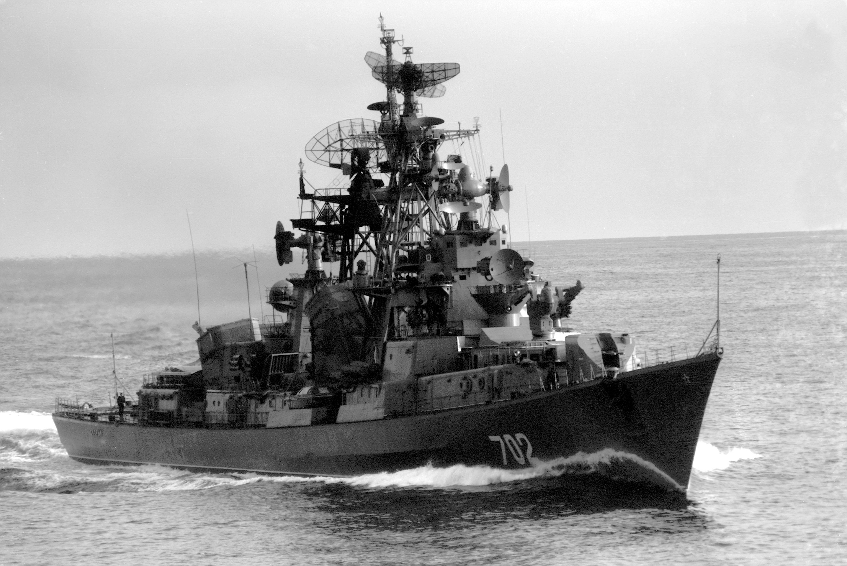 Project 61 Komsomolets Ukrainy class large ASW ship Skoryy.